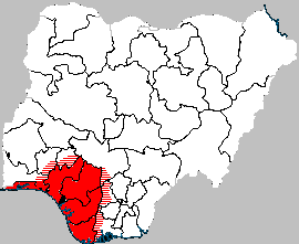 Map showing the sphere of influence of the historical Empire of Benin in modern-day Nigeria